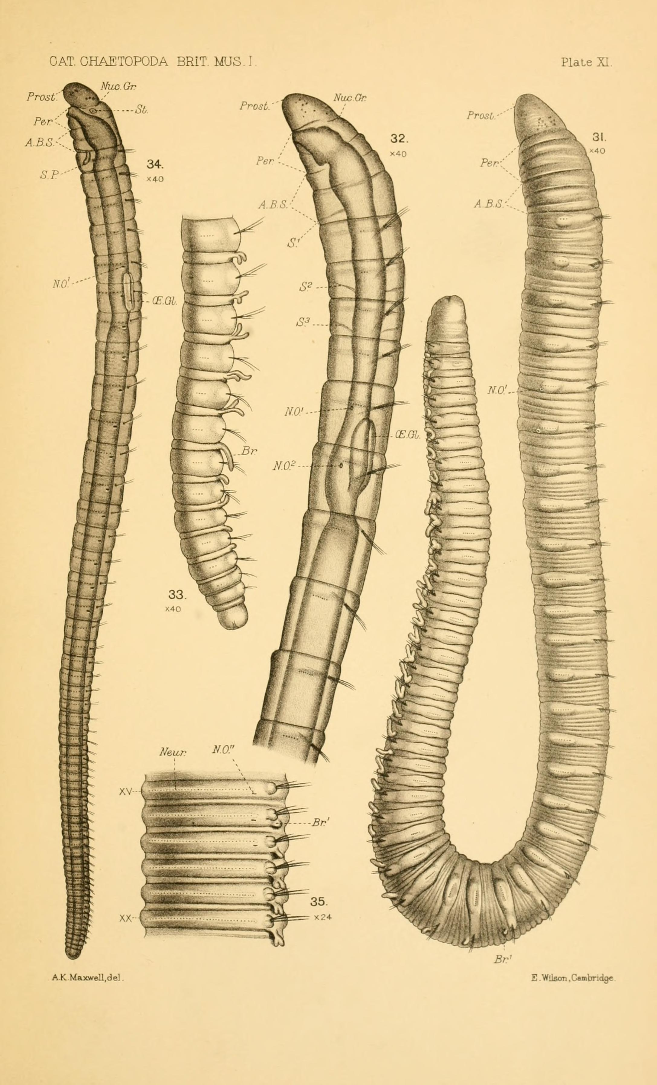 Branchiomaldane and Arenicola Title: Catalogue of the Chaetopoda in the British Museum (Natural History) Year: 1912 (1910s) Authors: Ashworth, James Hartley, 1874-1936; Ashworth, James Hartley Subjects: Oligochaeta; Polychaeta Publisher: London, Printed by Order of the Trustees of the British Museum Text Appearing Before Image: CAT. CHAETOPODA BRIT MUS.! Nvx: Gr Plate XI Text Appearing After Image: Br' AKMaxwell.de!. E Wilson, Cambridge